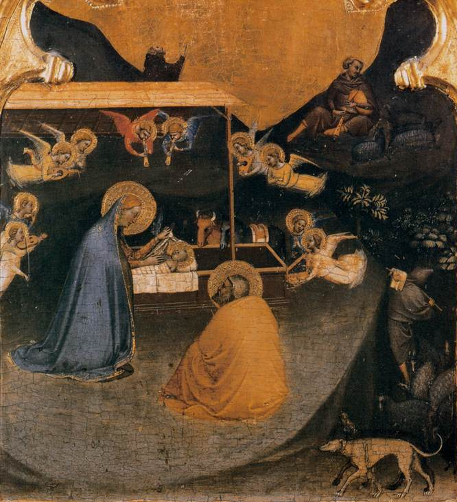 Polyptych of San Pancrazio